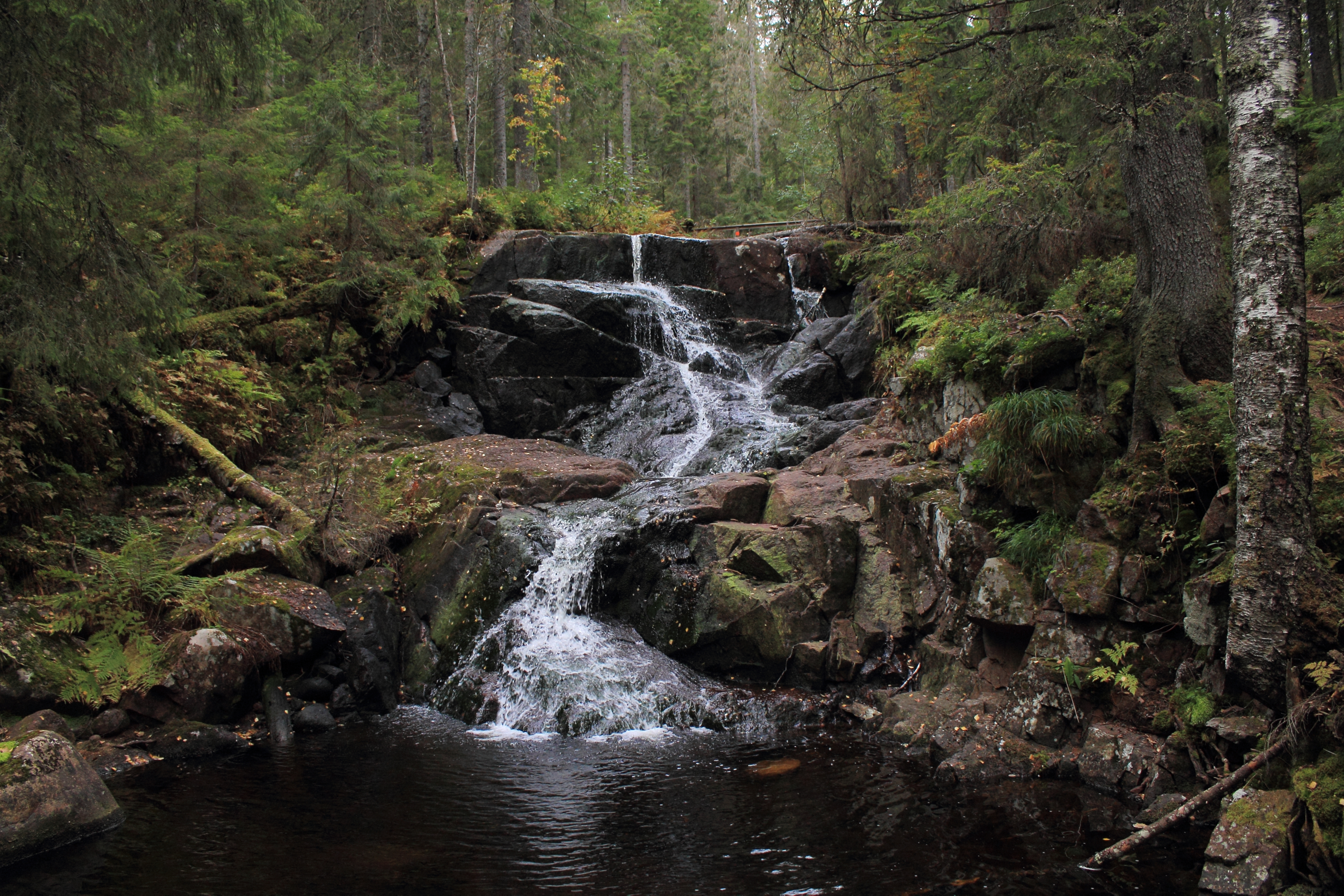 A picturesque waterfall in Skuleskogen's forest.